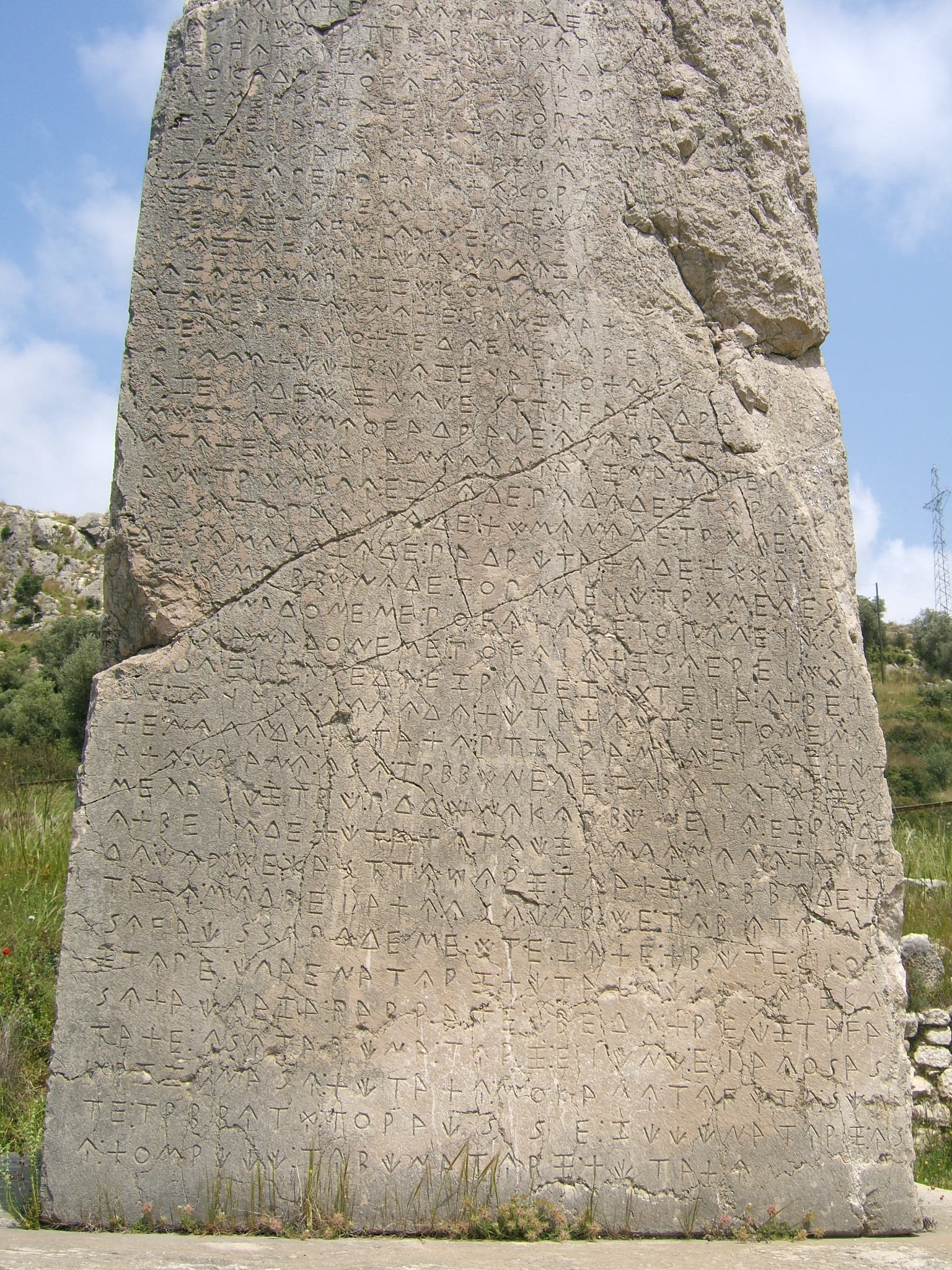 The south side of the Xanthian Obelisk, showing inscriptions in Lycian.